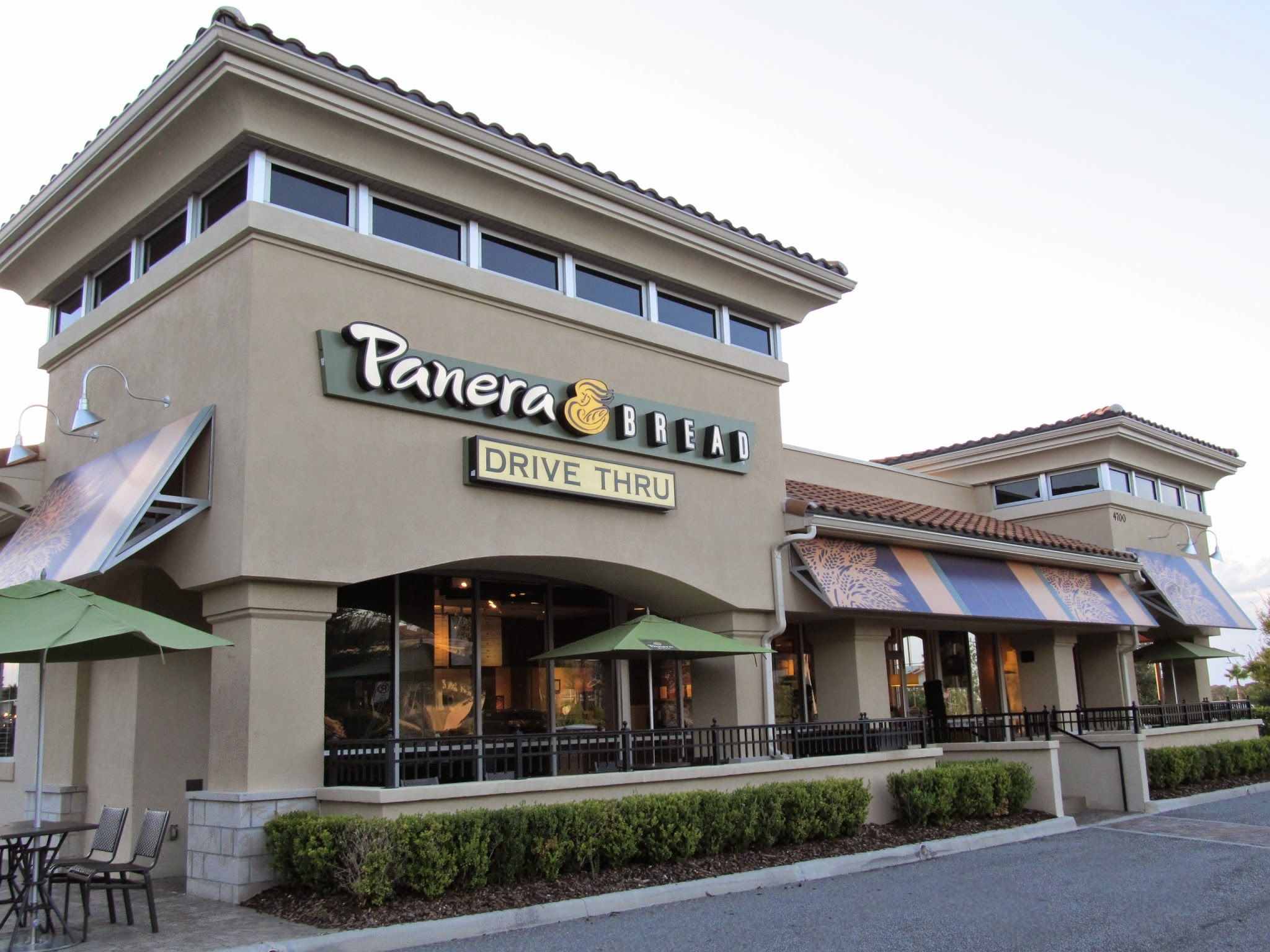 Restaurant in Windermere, Florida